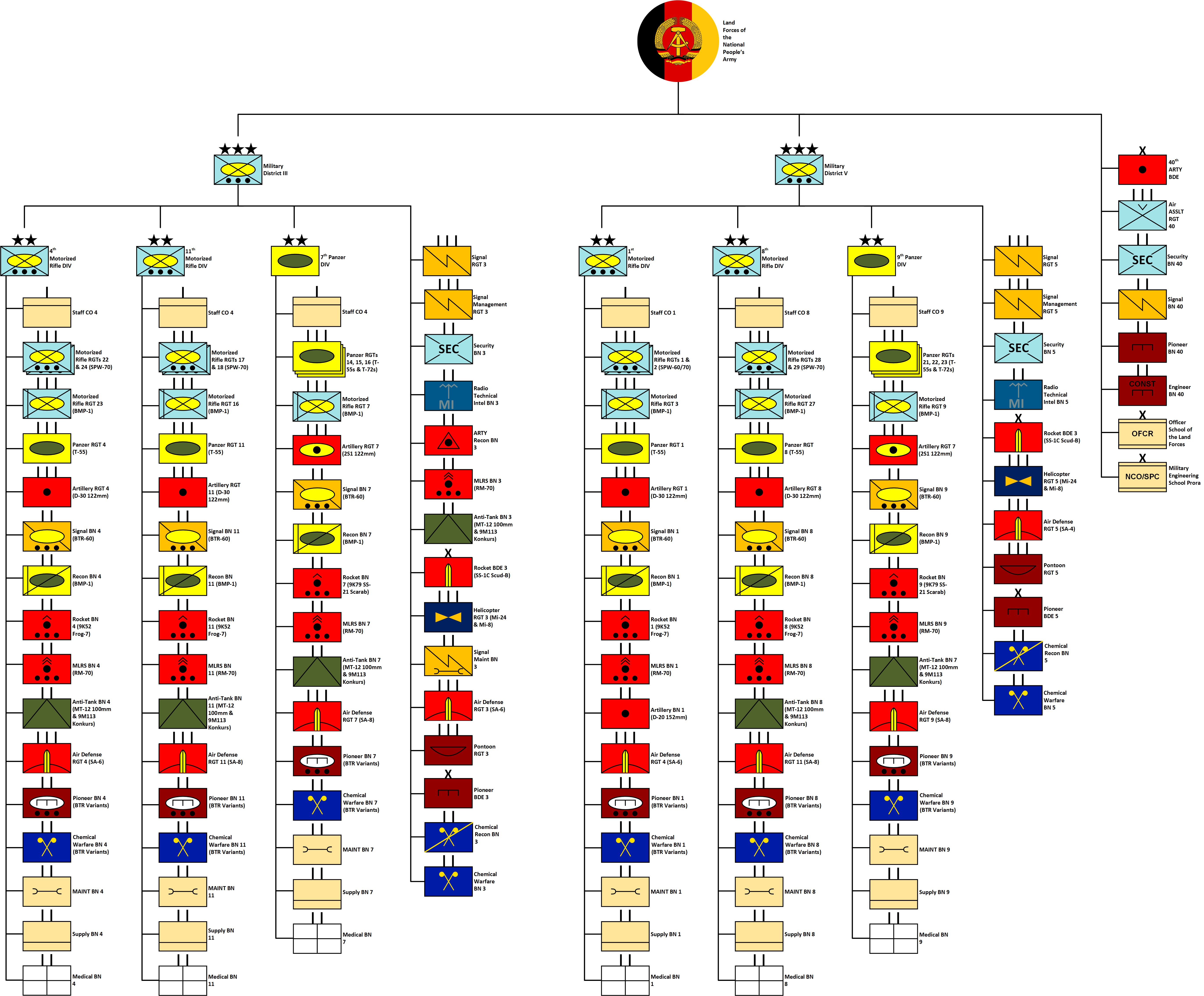 Land Forces of the East German National People's Army circe 1988